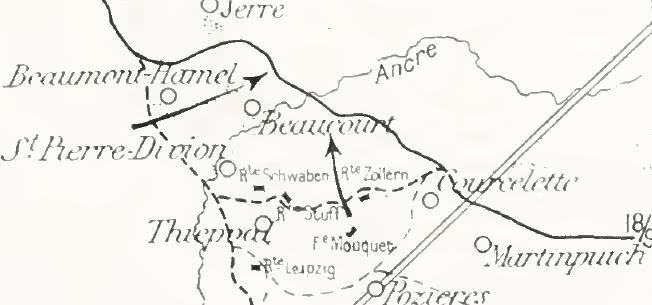 map Beaumont Hamel, 1916